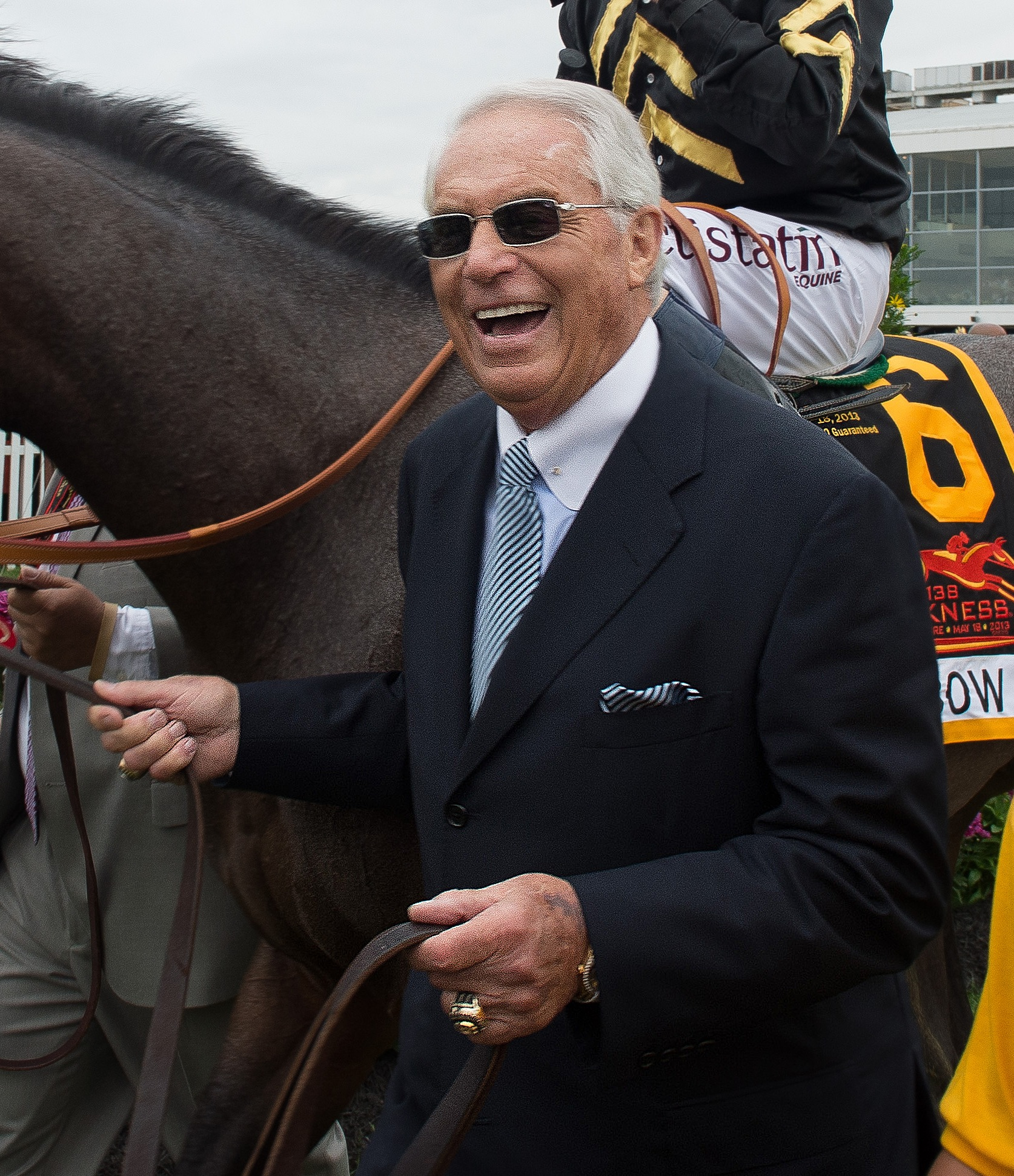 The 138th Annual Preakness. by Jay Baker at Baltimore, MD.